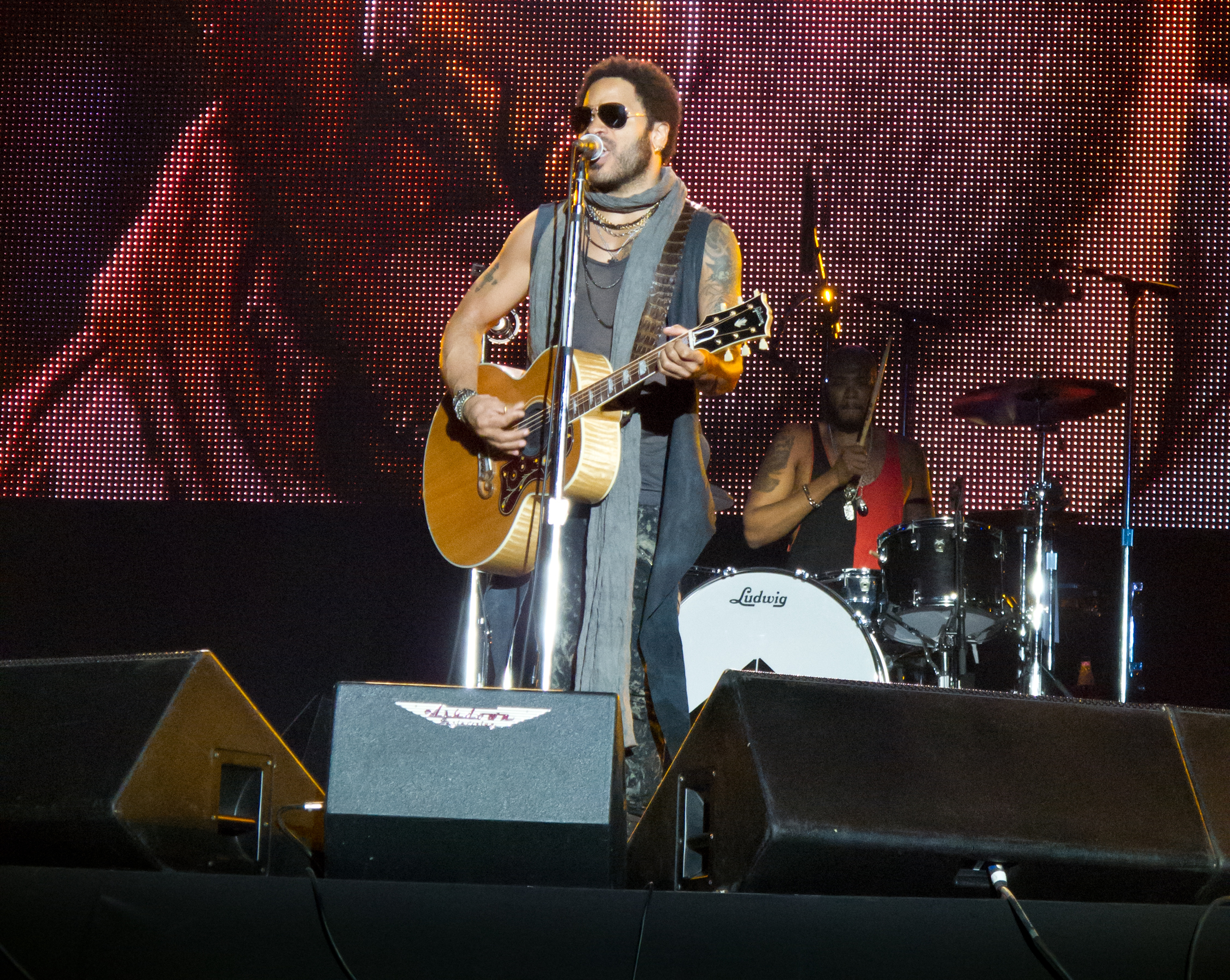 Lenny Kravitz live in Rock in Rio Madrid 2012.